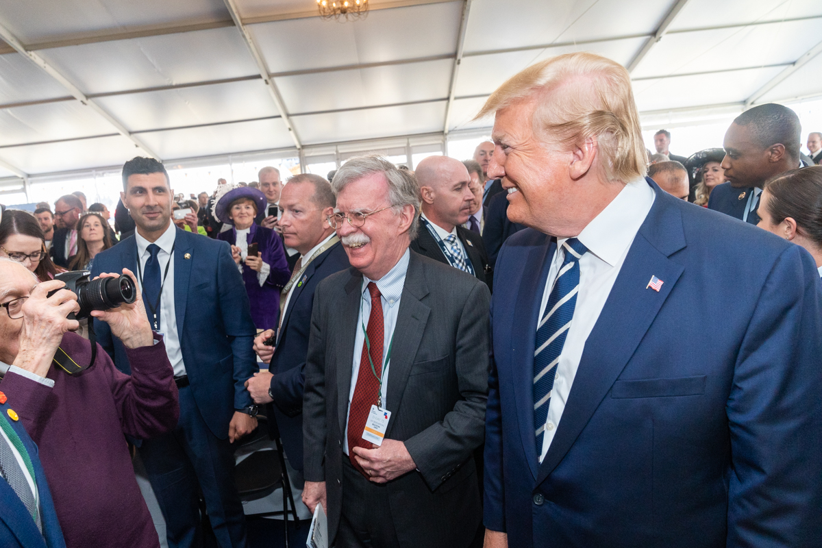 President Donald J. Trump joined by White House National Security Advisor Ambassador John Bolton participate in a meet and greet with active duty U.S. Service Members stationed in the United Kingdom Wednesday, June 5, 2019, at the Southsea Common in Portsmouth, England. (Official White House Photo by Shealah Craighead)